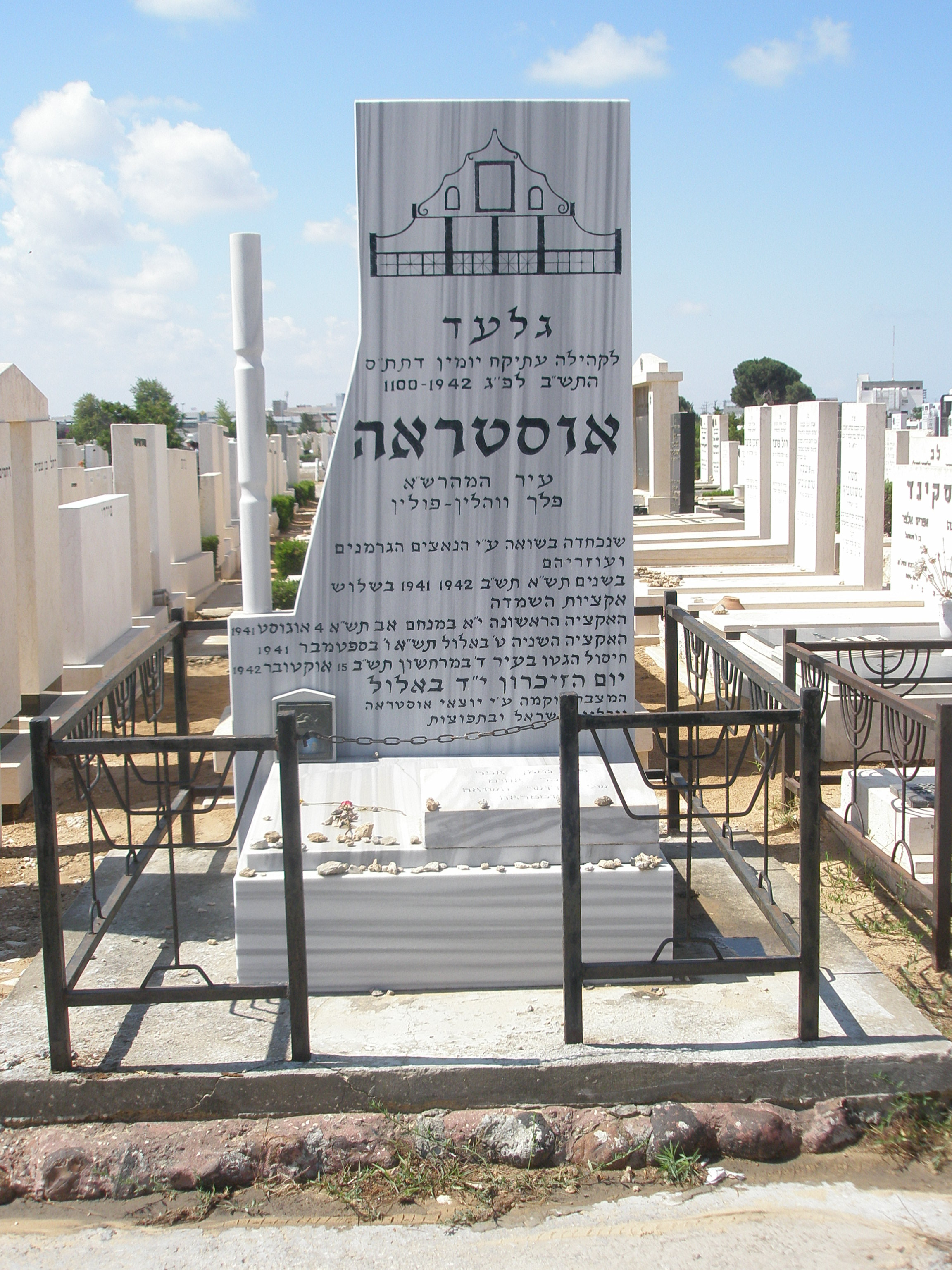 Ostroh memorial at Holon Cemetery